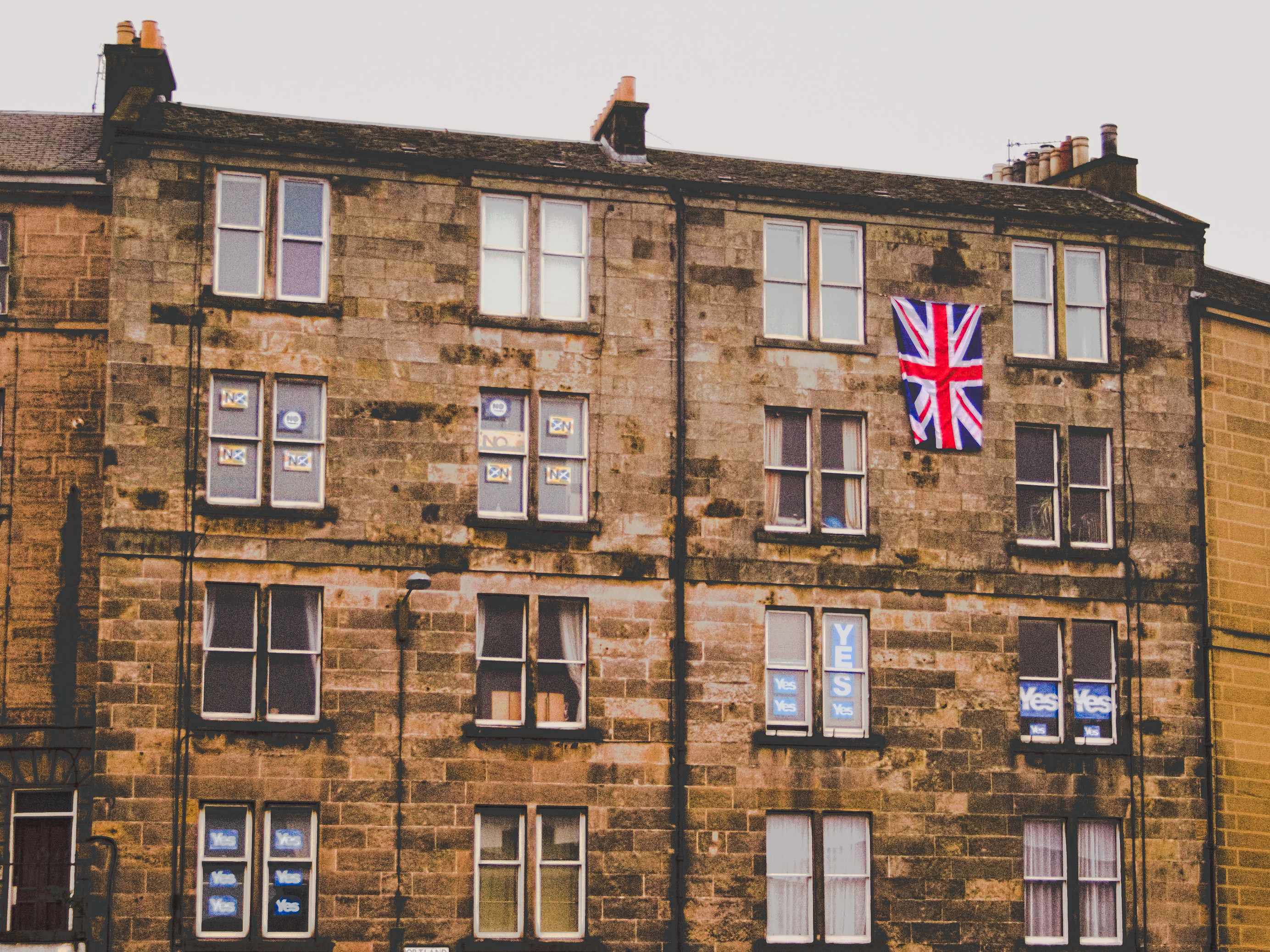 Tenement block in Leith (North Junction Street/Lindsay Road junction), with both YES and NO referendum posters and Union flag.